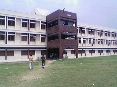 Saroj Mohan Institute of Technology, Guptipara, Hooghly